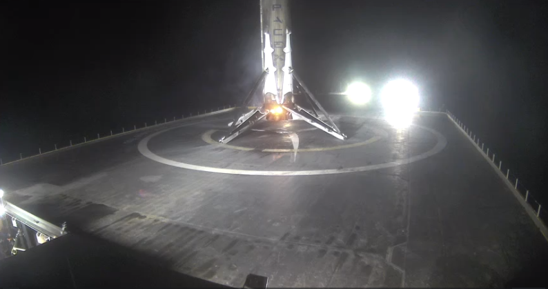 English